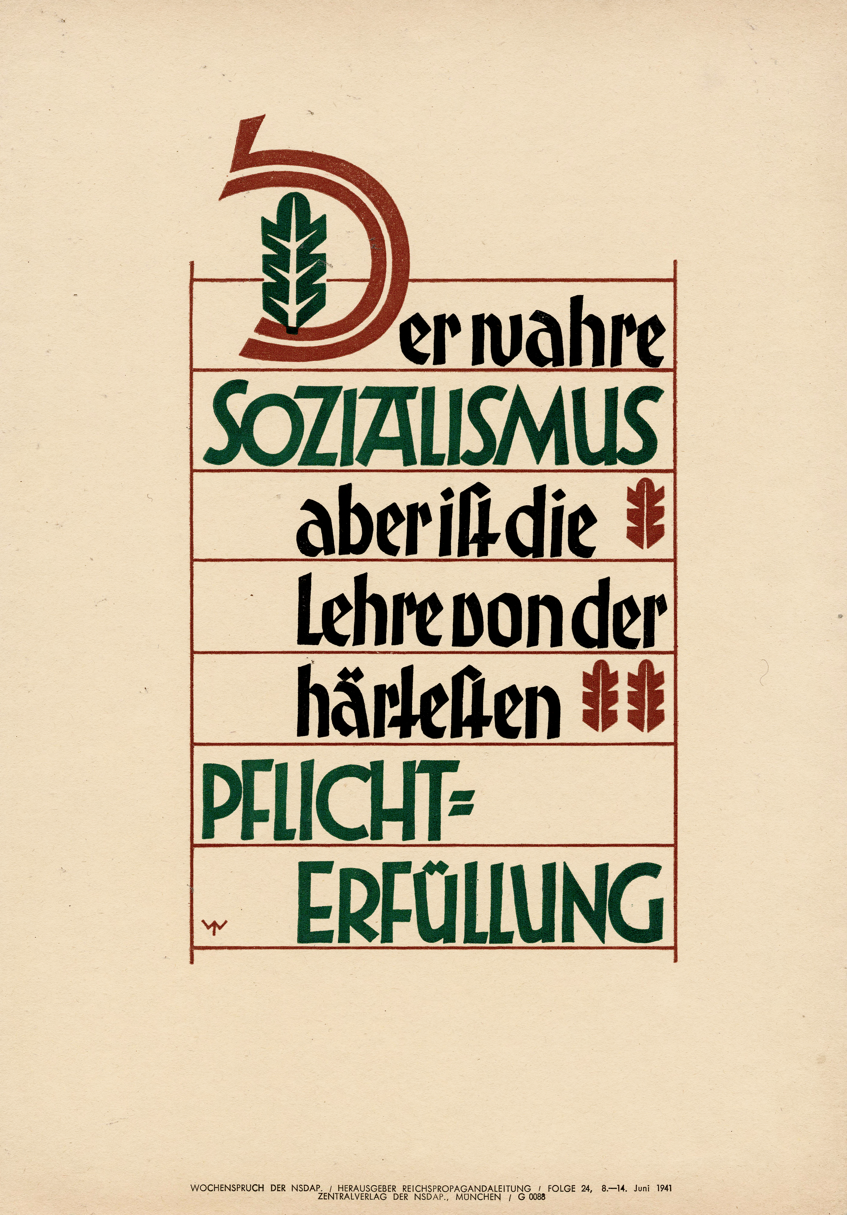 "True socialism, however, is the doctrine of the strictest performance of duty."